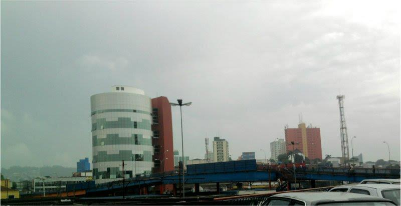 Mauá-SP Downtown Region